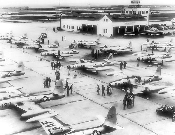 F-84Gs of the 27th Strategic Fighter Wing, Bergstrom AFB Texas, just before taking off for Furstenfeldbruck Air Base West Germany.